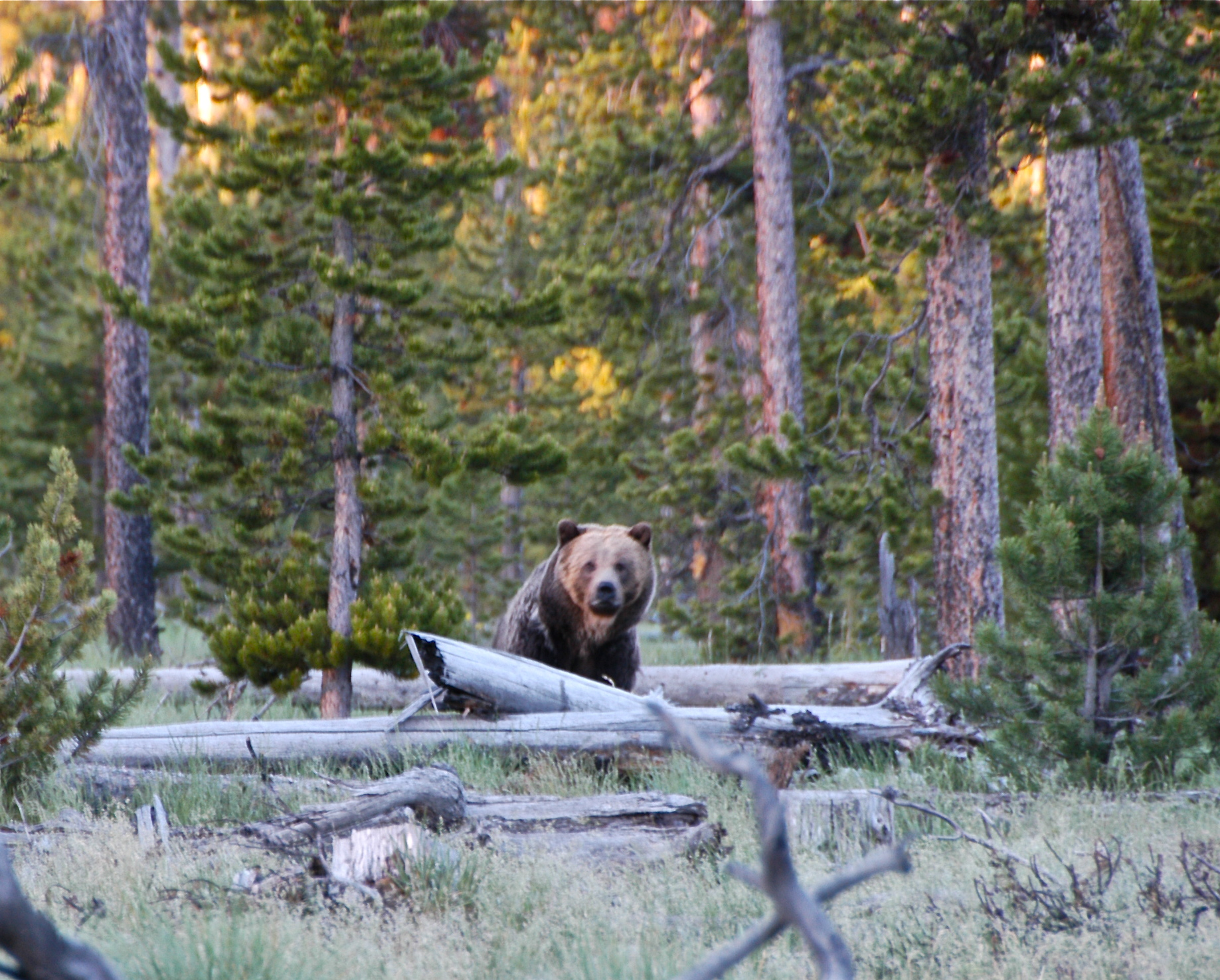 Wild grizzly (Ursus arctos horribilis) at Yellowstone National Park